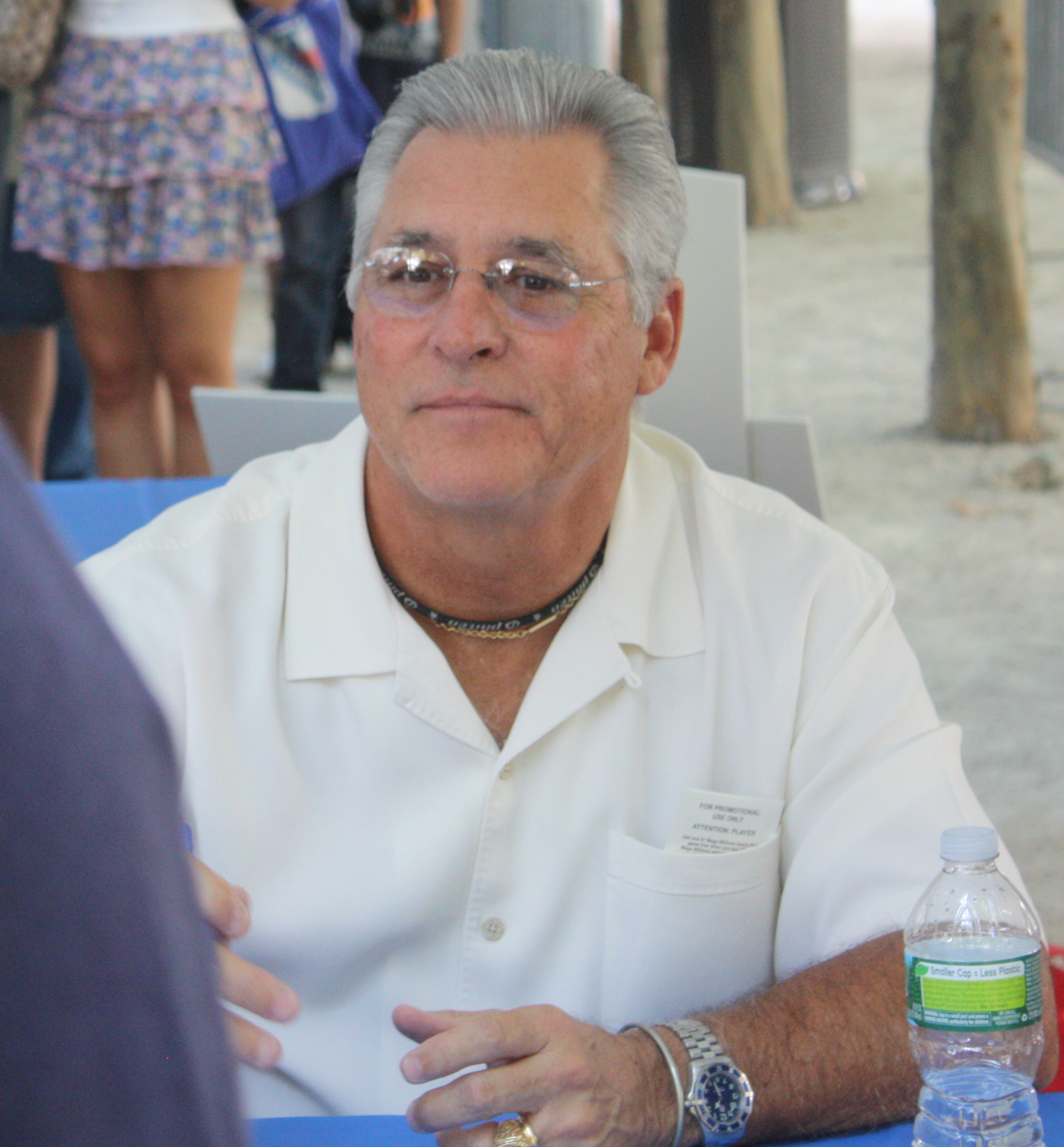 Former Yankees player Bucky Dent at 2010 Yankees Fan Fest.